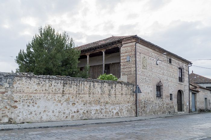 Casa palacio